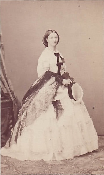 Carola of Vasa - Queen consort of Saxony